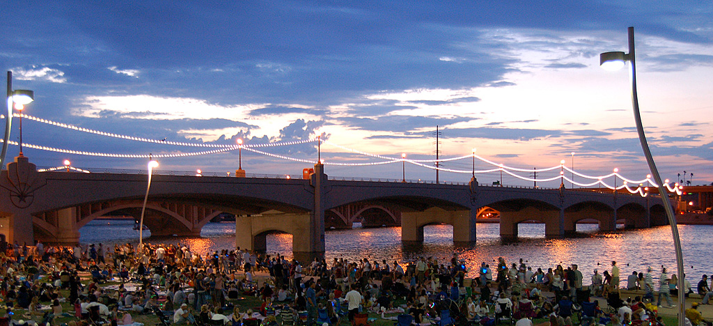 Photo of a bridge across Tempe Town Lake in Tempe as the sun sets just prior to the Fourth of July fireworks show. Photo by Derek Cashman; July 4, 2006.